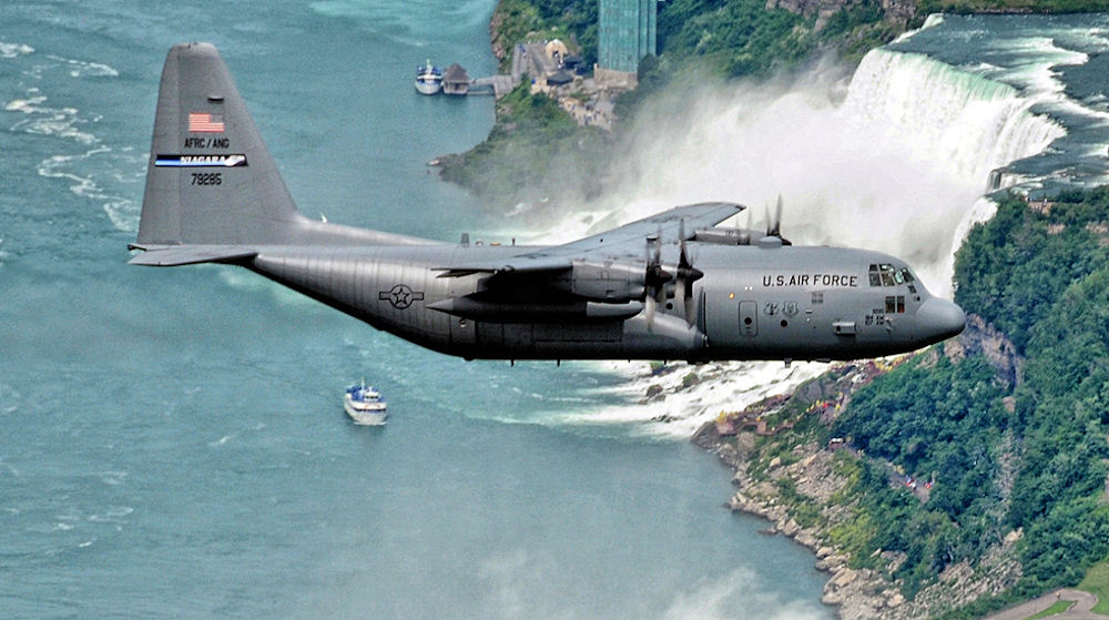 C-130 Hercules from the Niagara Falls Air Reserve Station flies over the Niagara Falls June 24, 2009, Skies over Niagara Falls NY. (U.S. Air Force Graphic by Staff Sgt. Joseph McKee)